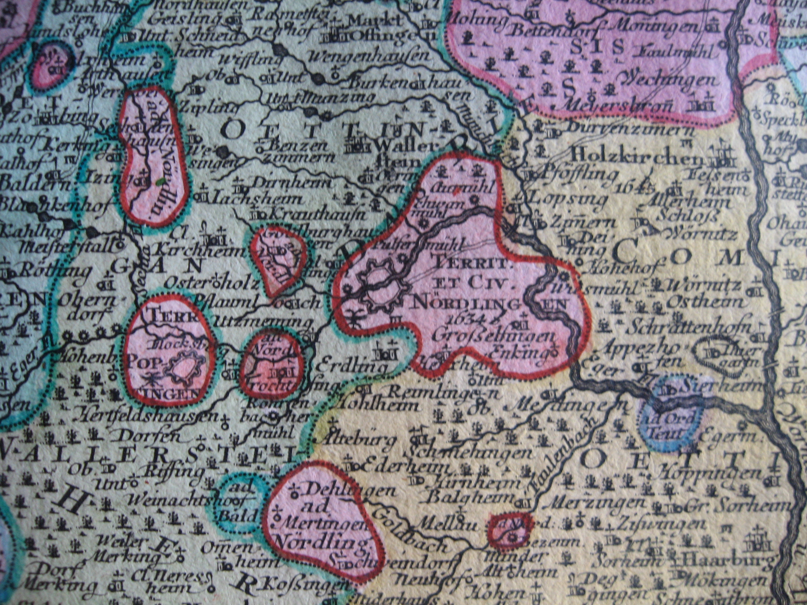 Map showing the Imperial Cities of Nördlingen (with its nearby exclaves) and Bopfingen ('Popingen'). On contemporary maps, the double-headed eagle denoted a Free Imperial City. Cropped from a map of the northeastern part of the Circle of Swabia published by Matthäus Seutter, circa 1750.